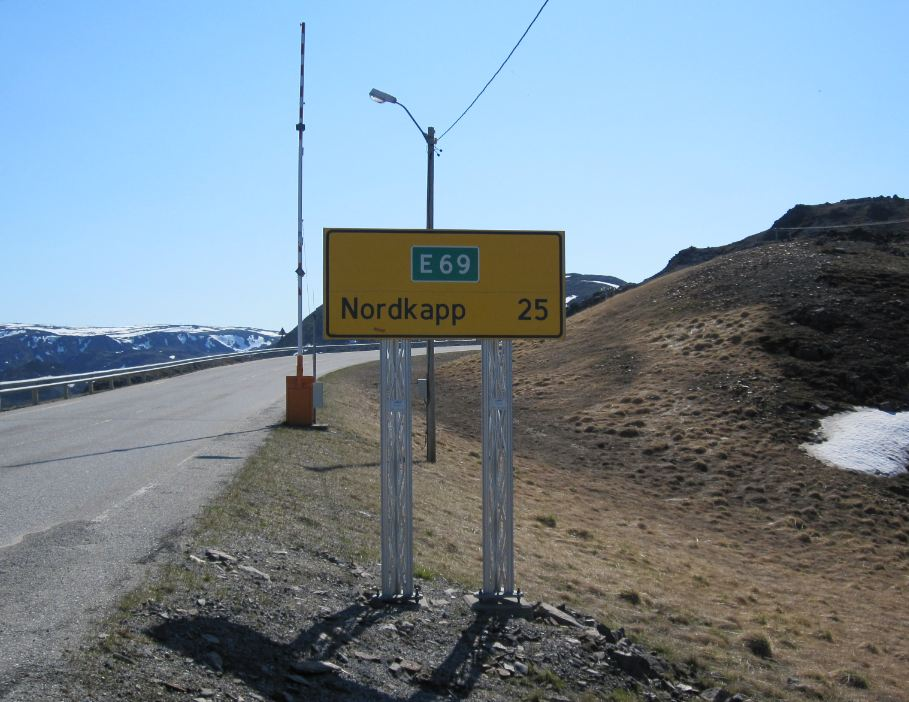 Traffic sighn on the E 69 showing the distance to the north cape